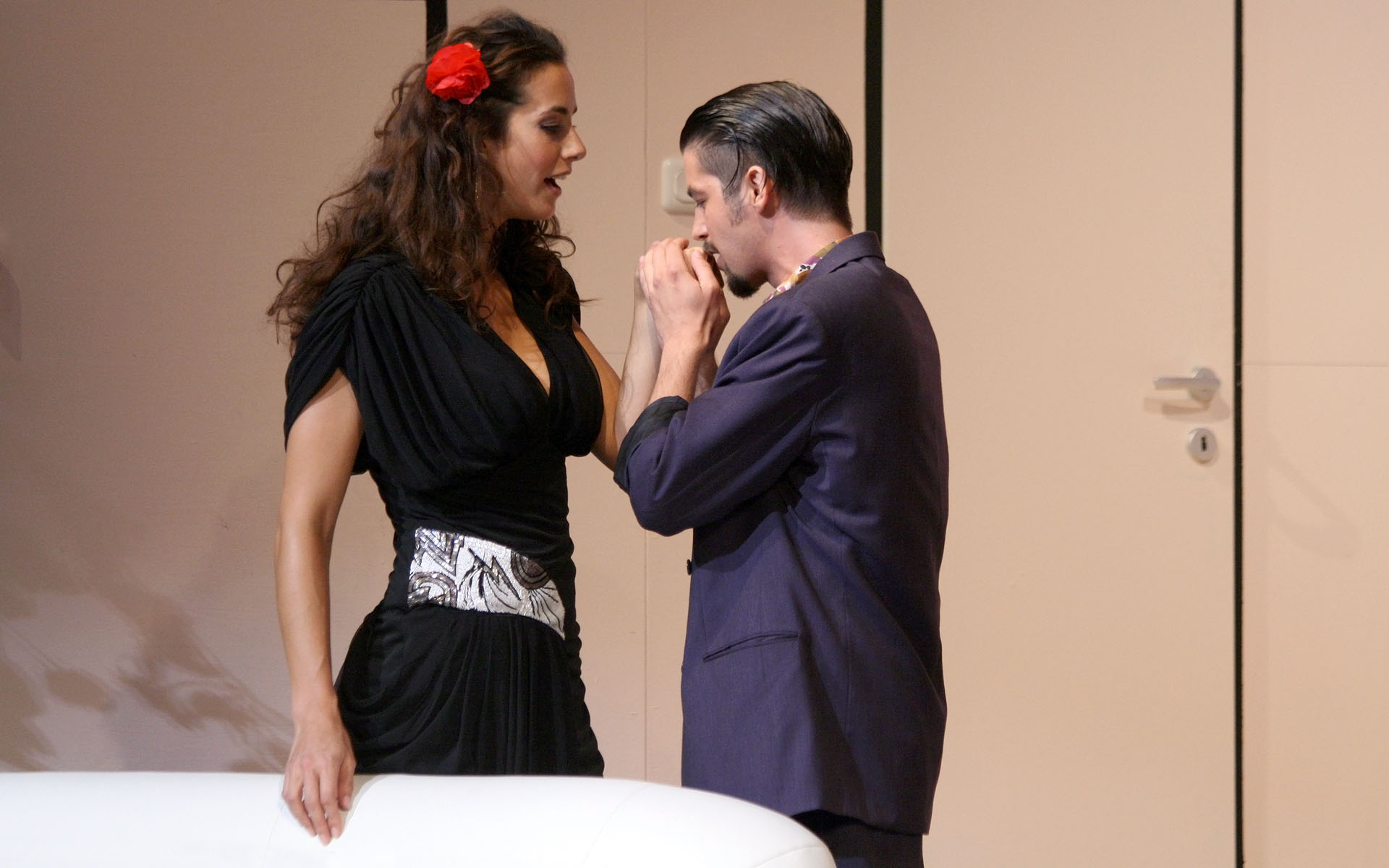 Nina Hartmann and Otto Jaus in Ein ungleiches Paar, an adaption of Neil Simons play The Odd Couple. Summer theater festival at the city theater of Berndorf (Lower Austria).